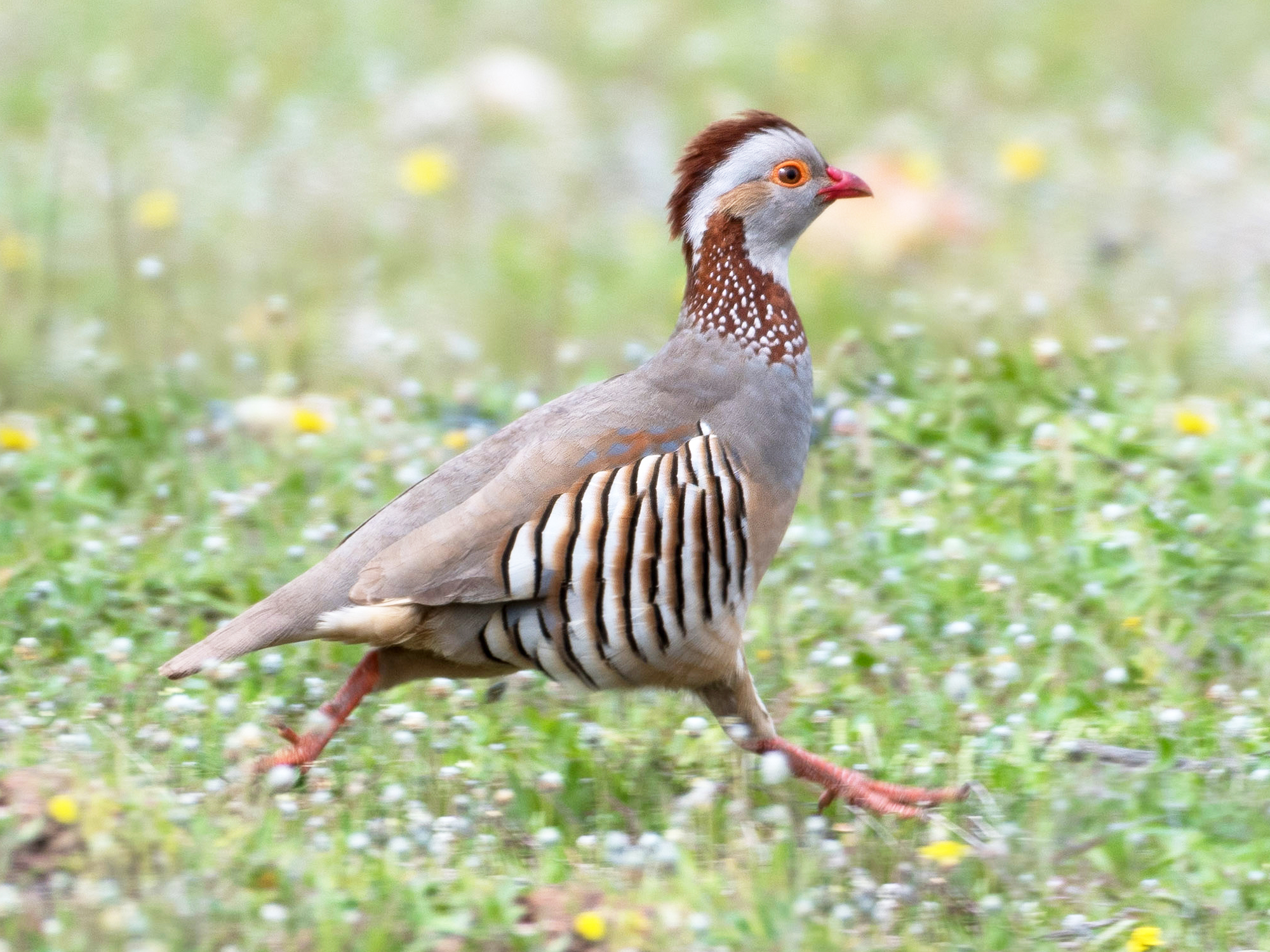 Perdrix gambra au lac de Tunis (site Ramsar et ZICO)